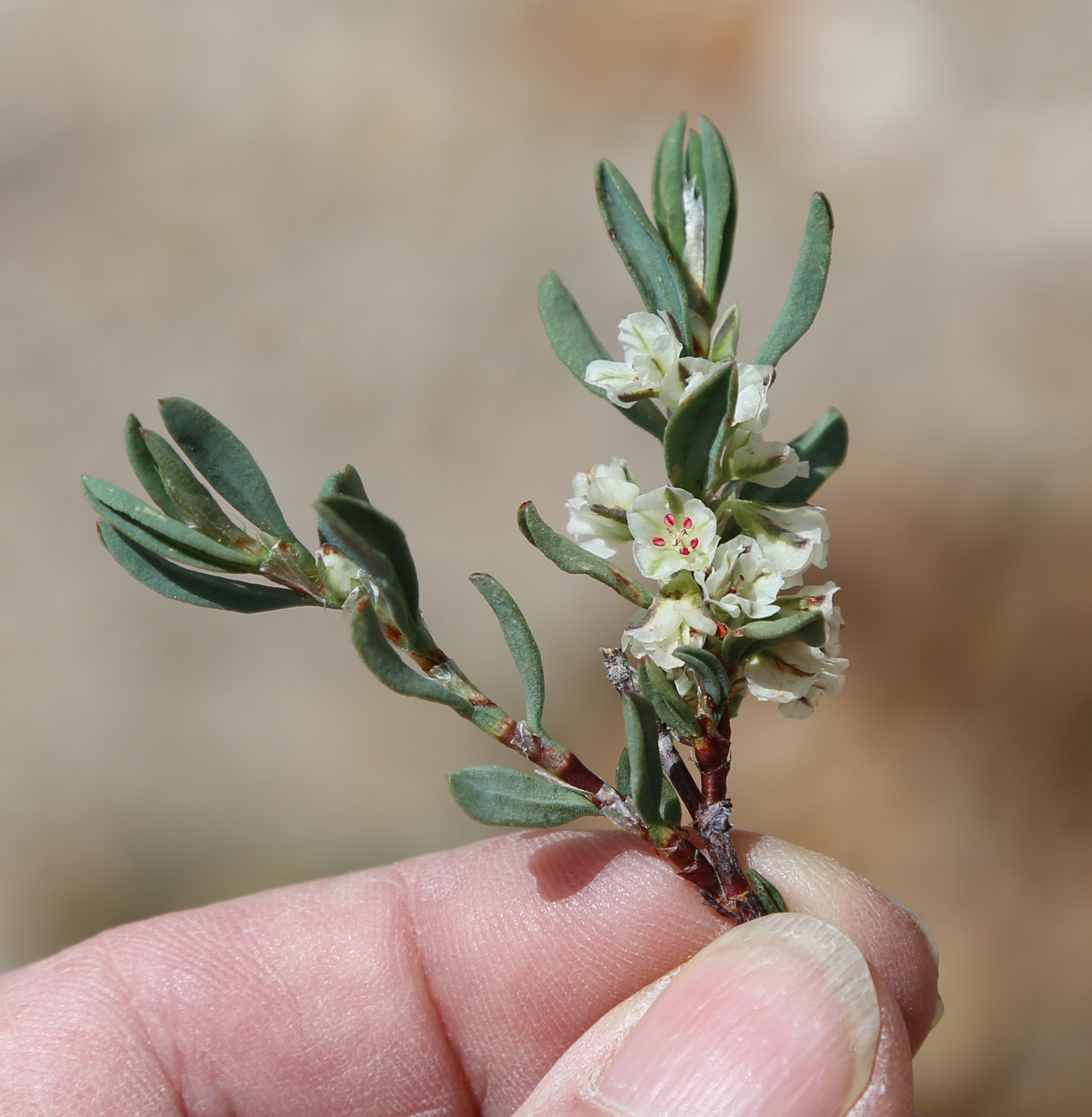 Shasta knotweed (Polygonum shastense), closeup of small branch showing rough, scaly twigs, folded leaves, and 5-petaled white flowers. At 10,380ft along trail between Saddlebag and Steelhead Lakes in 20-Lakes Basin, Hoover Wilderness, Sierra Nevada mountains, California USA.